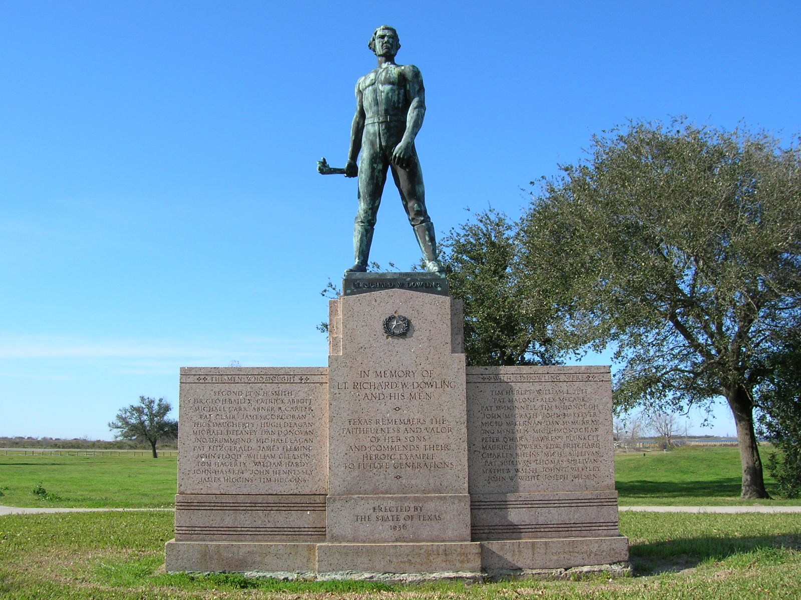 Richard Dowling Memorial located at Sabine Pass, Texas - Dated 1936.